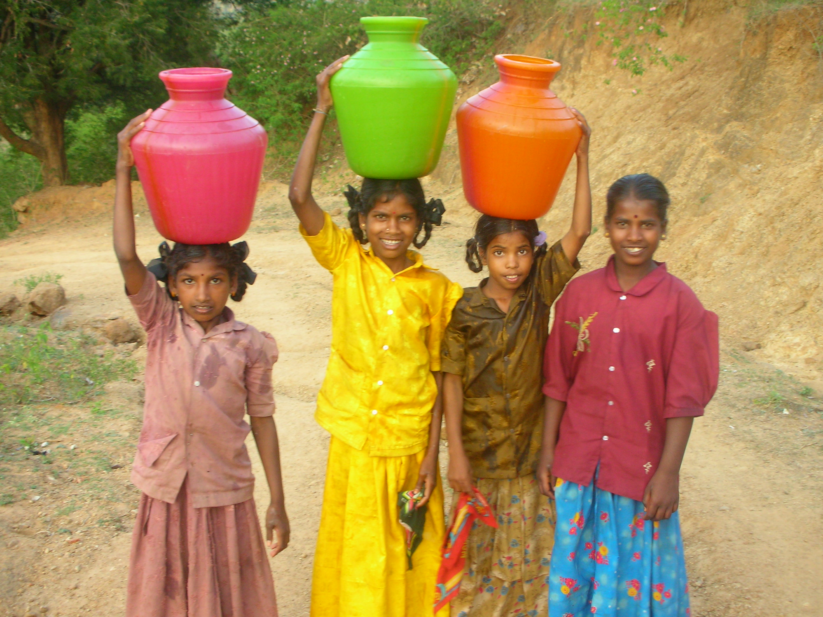 Four girls carrying water in India.Girls Carrying Water